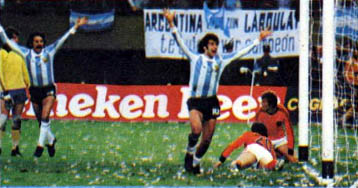 Mario Kempes celebrating his goal.